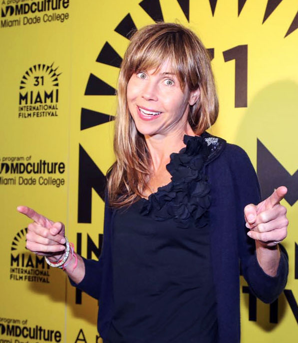 GABRIELLE director Louise Archambault at the Miami International Film Festival Photo by: Cristian Lazzari